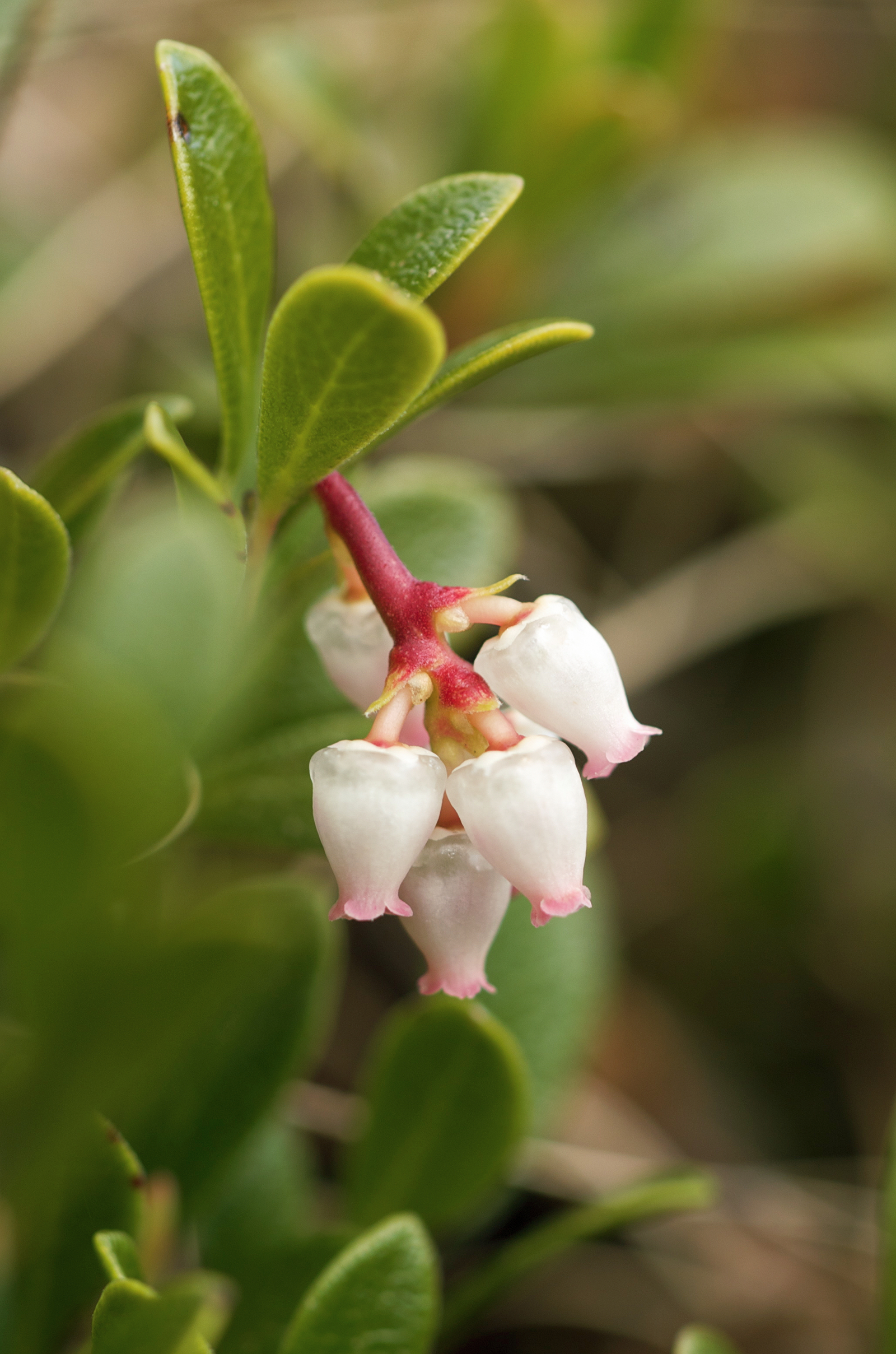 Flowers of a Common Bearberry (Arctostaphylos uva-ursi), Bodø, Norway